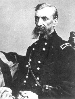 Alexander Asboth, Union General. Source: [1]